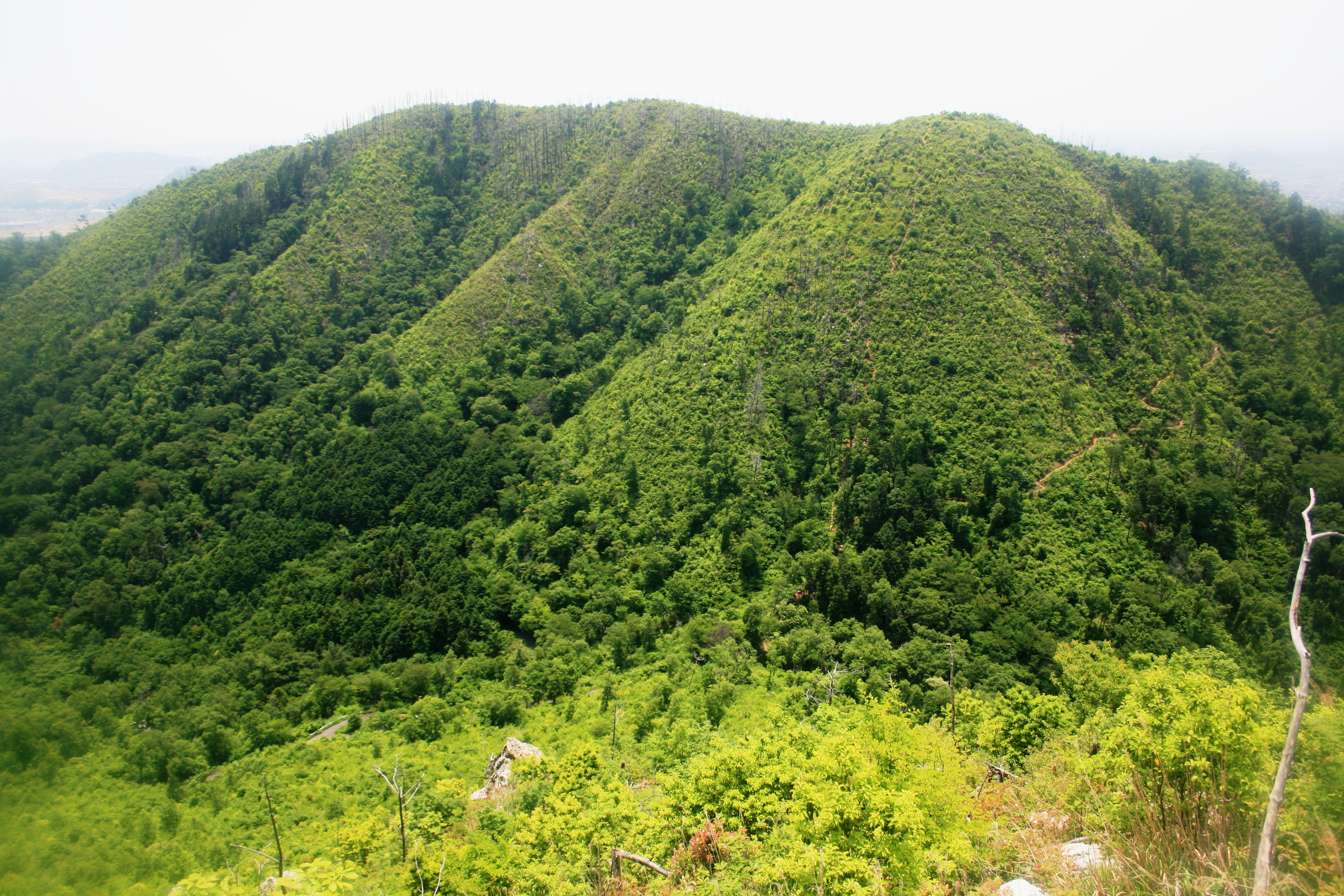 Mount_Gongen_Kakamigahara from Mount Gongen Gifu